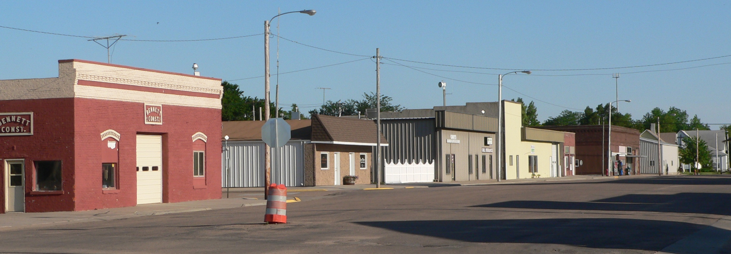 Downtown Bertrand, Nebraska: east side of Minor Avenue, seen from about Nebraska Highway 23.